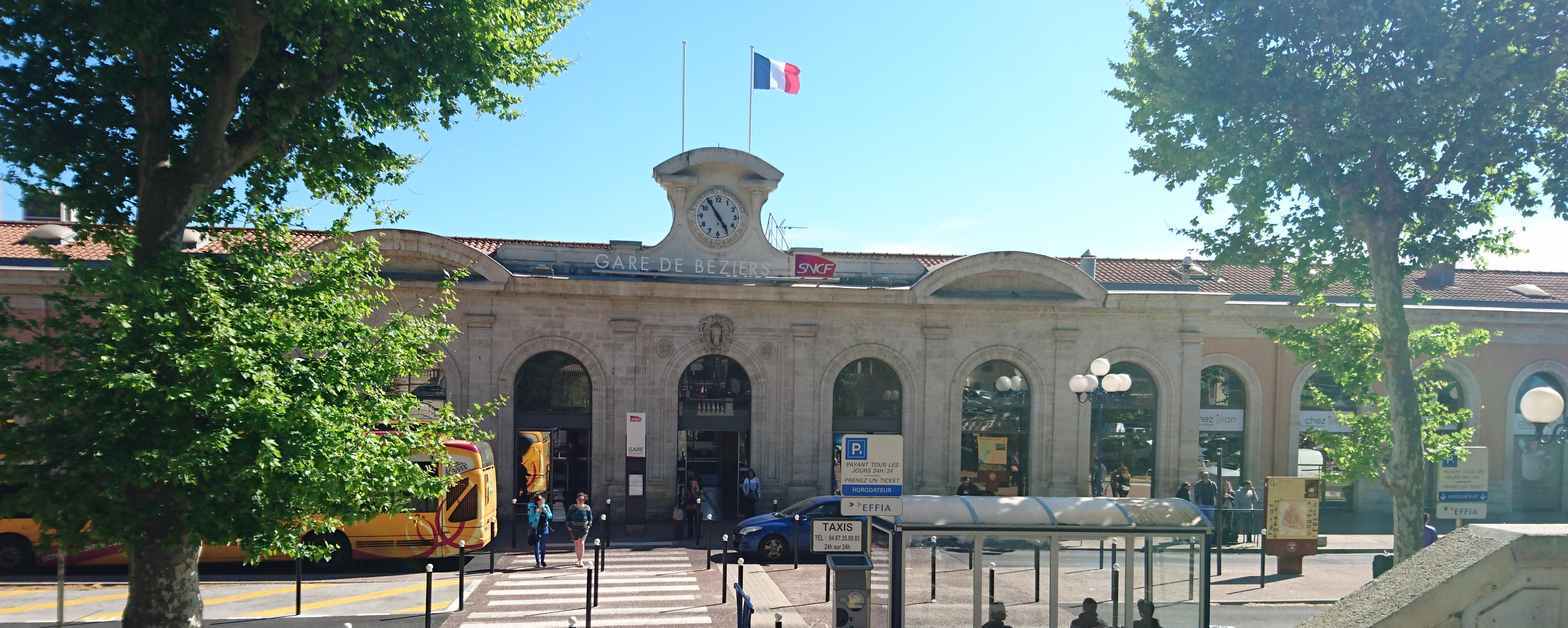 train station in Béziers (France)